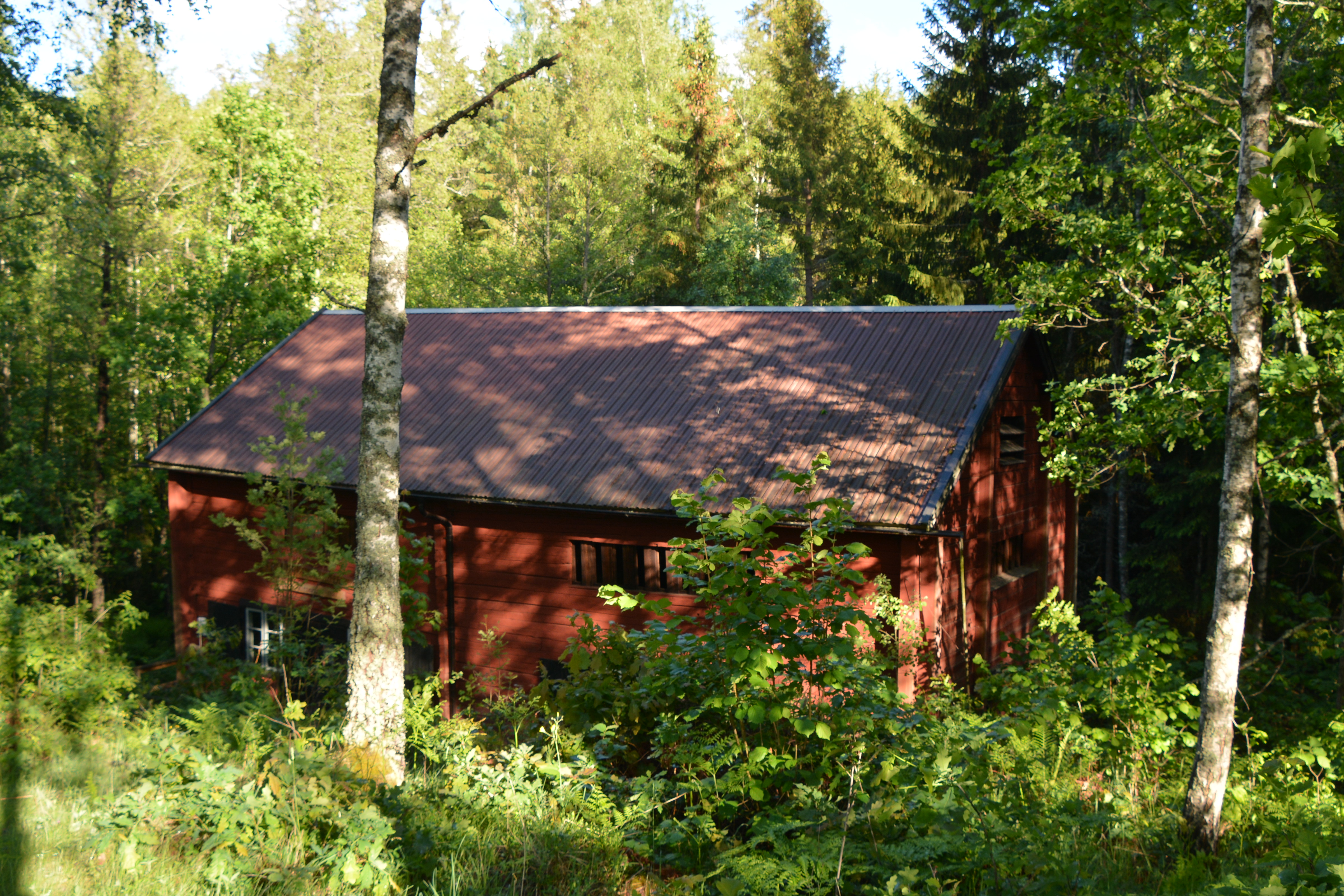 Fröåsa handpappersbruk i Virserums hembygdspark